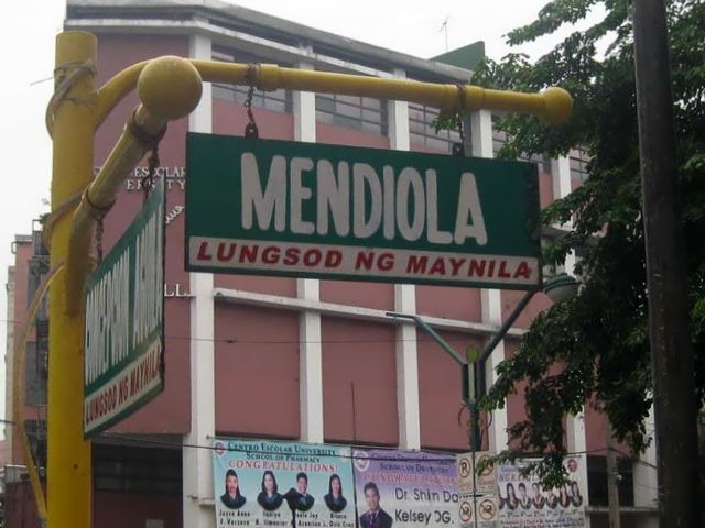 Street sign at Mendiola corner Dr. Concepcion Aguila Streets Mendiola Street The street crosses the Mendiola Bridge, officially known as Chino Roces Bridge